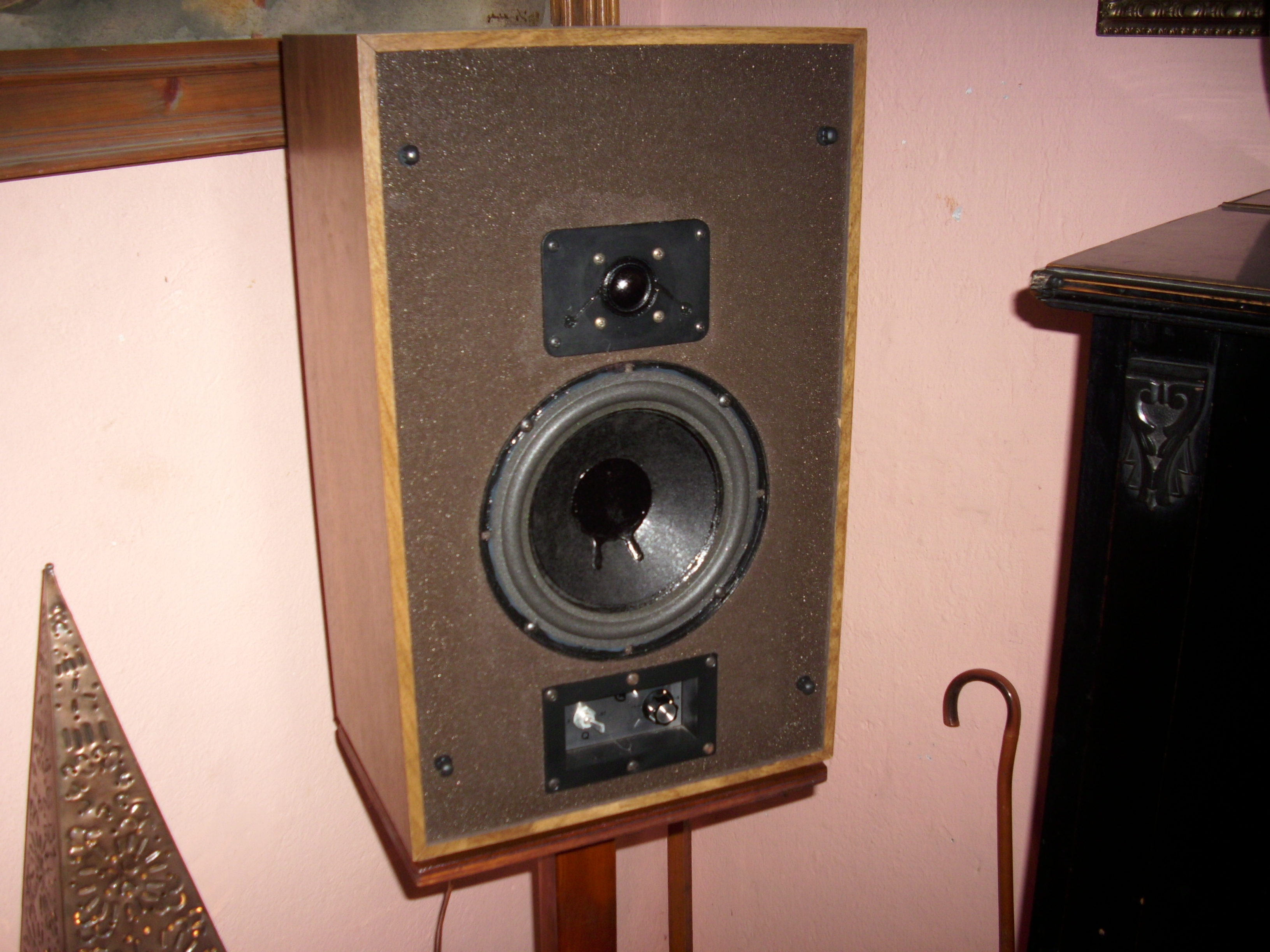 Cizek Model Two (my own speaker)